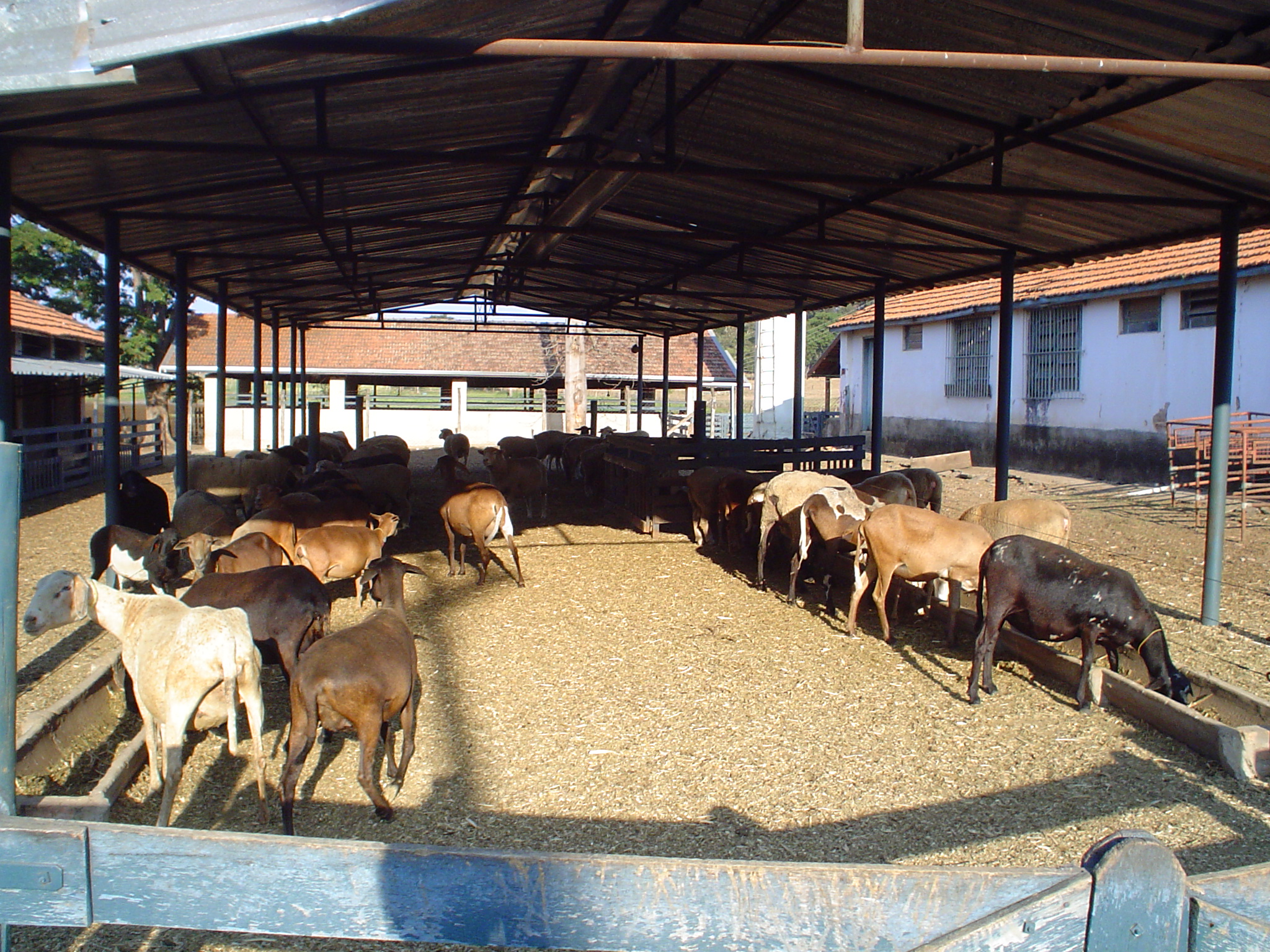 Santa Ines sheep in Brazil